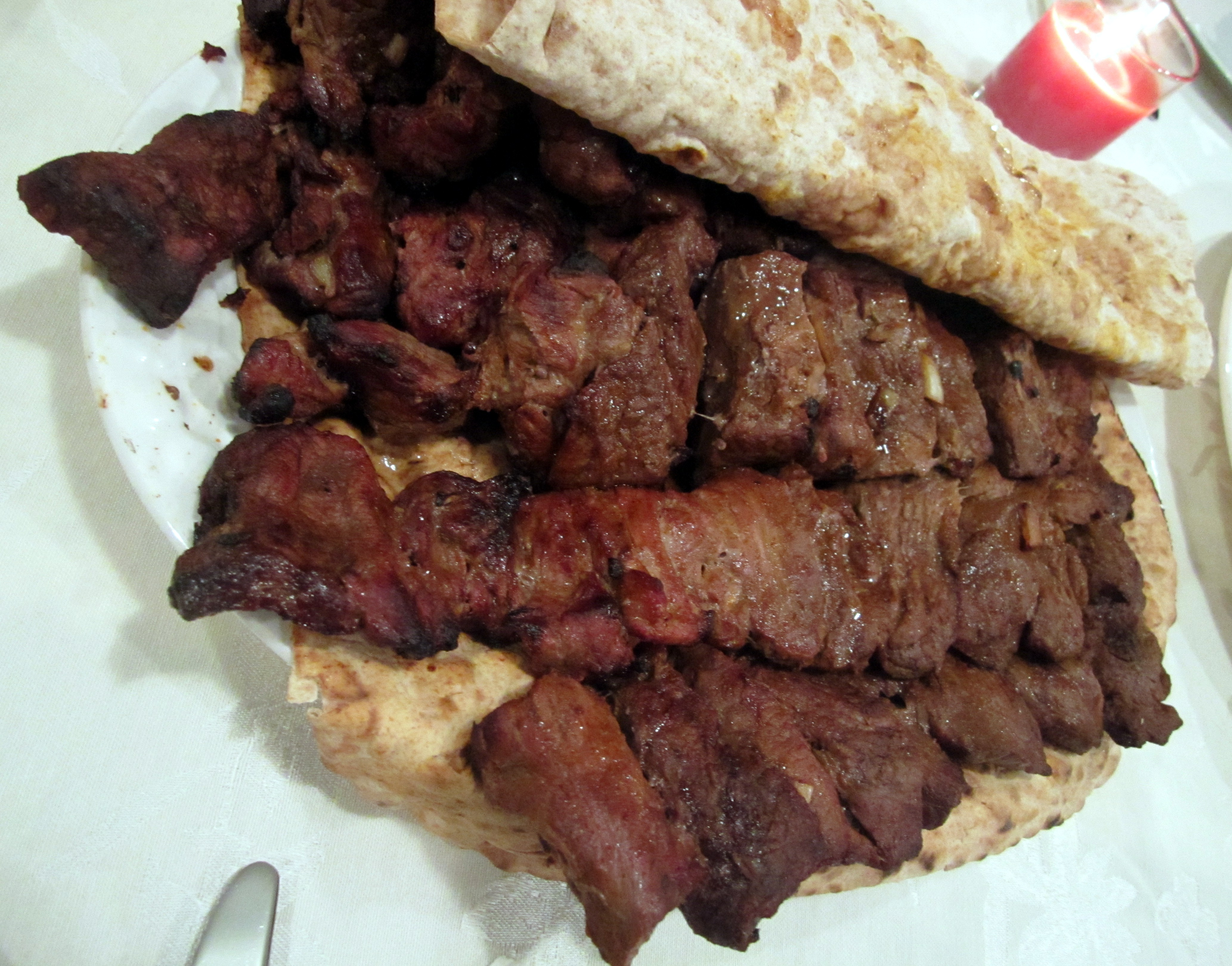 Barbequed meat